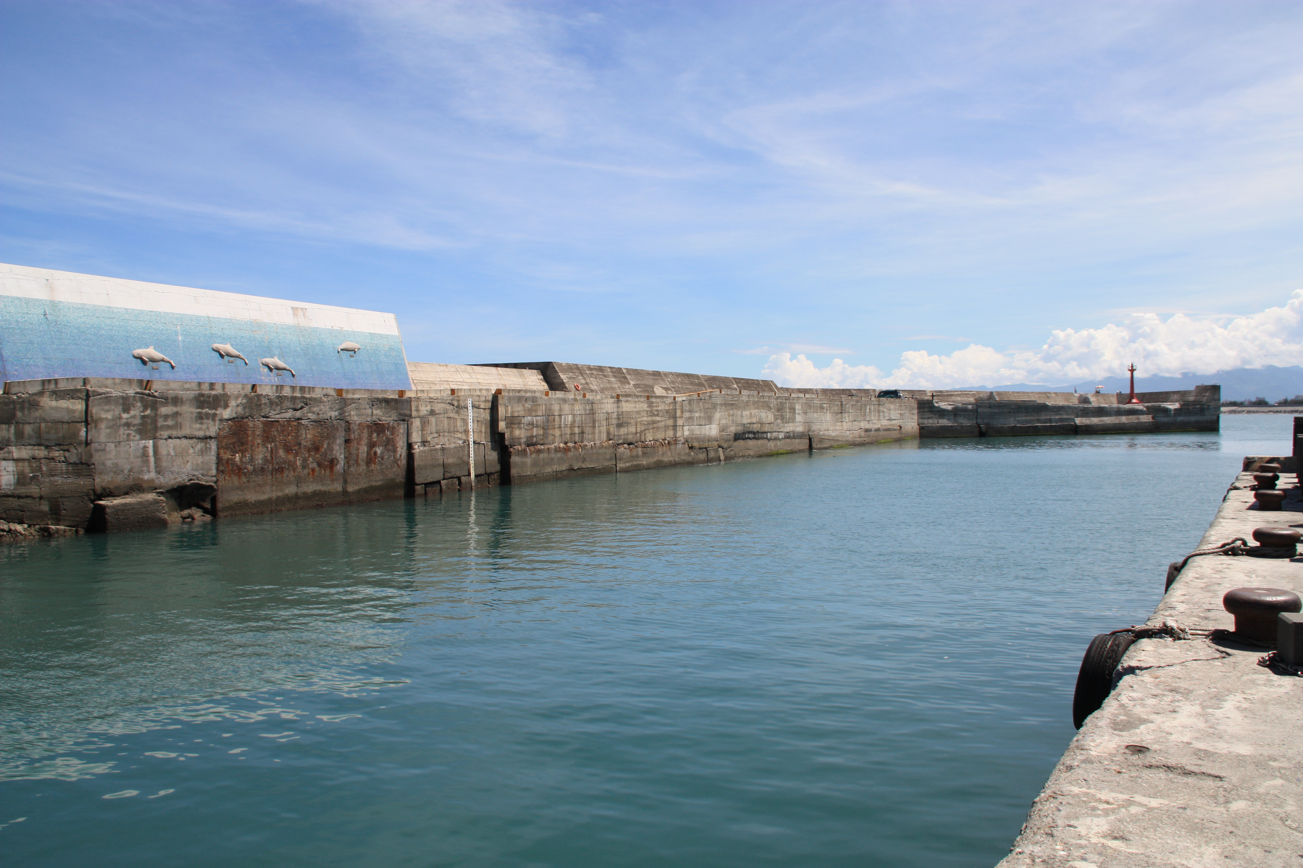 Taitung County Taitung City FùGāng fishing port Starting point for boat trips to Lǜ Dǎo (Green Island)